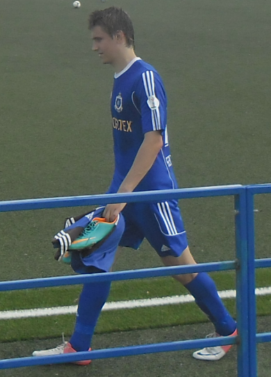 Fiodar Čarnych in match SKVIČ - Dniapro